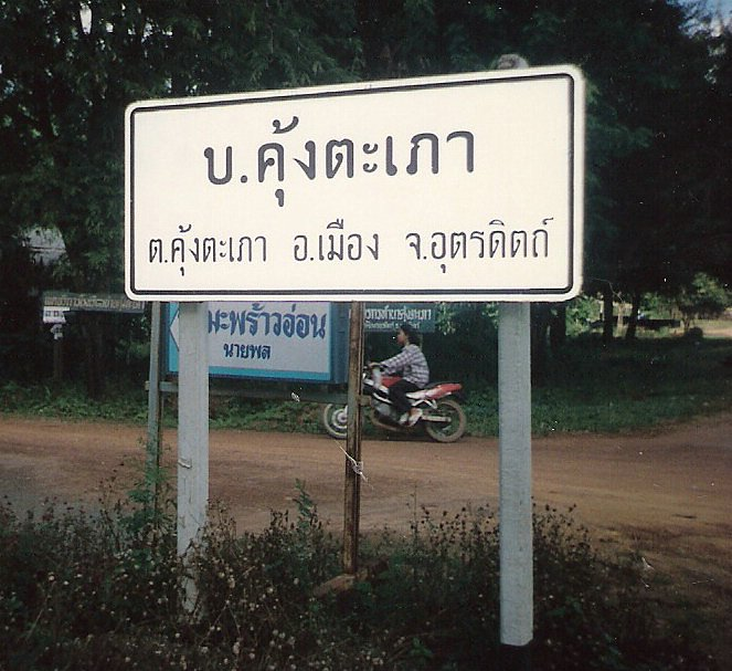 Ban Khung Taphao Location: Ban Khung Taphao, Khung Taphao subdistrict, Mueang Uttaradit, Uttaradit Province, Thailand.